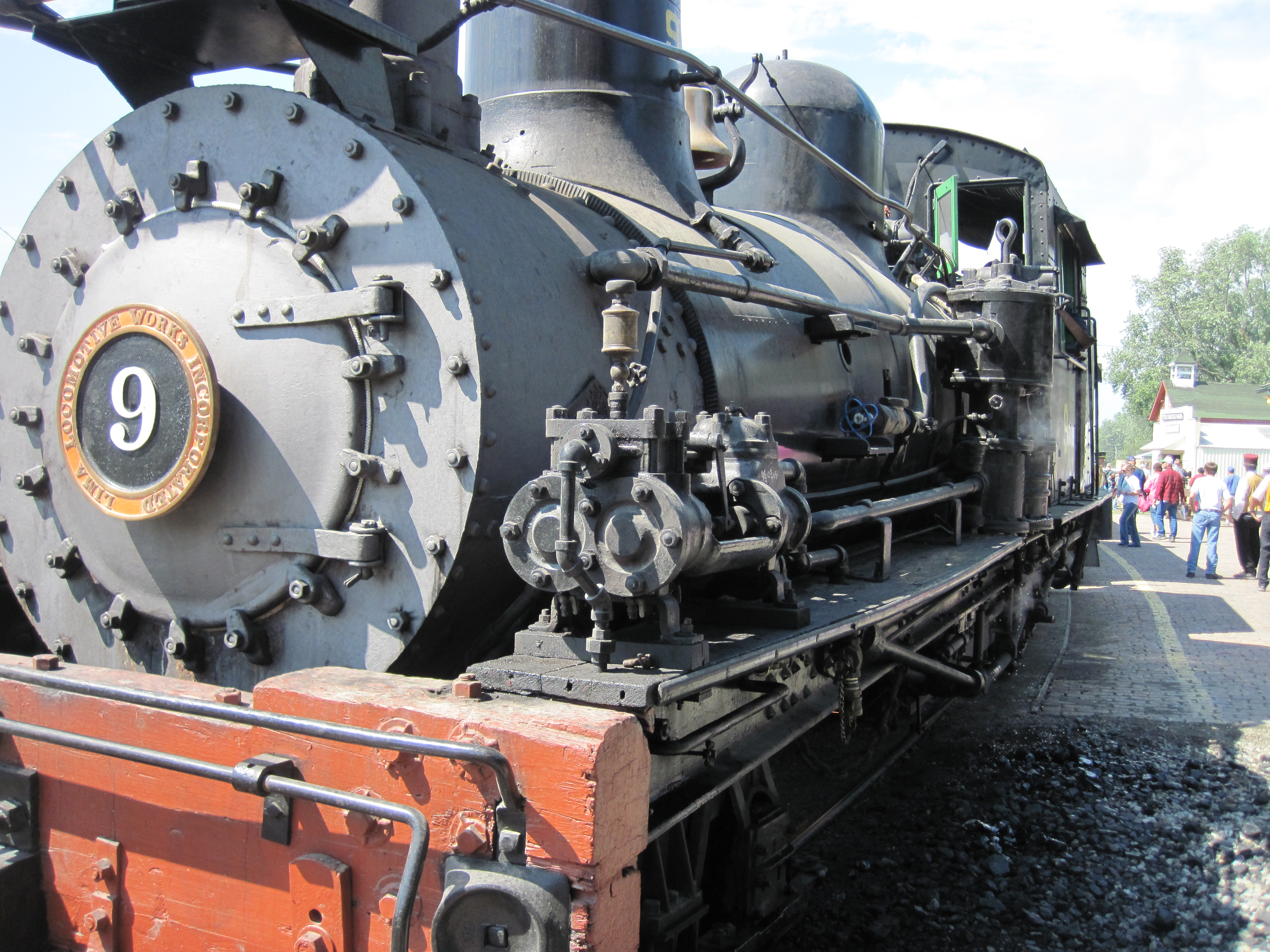 Lima Locomotive 1923 engine, owned by the Midwest Central Railroad (